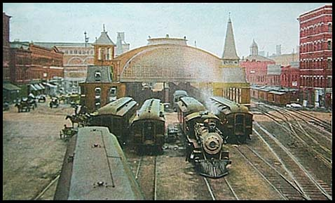 Atlanta Union Depot (built 1871)